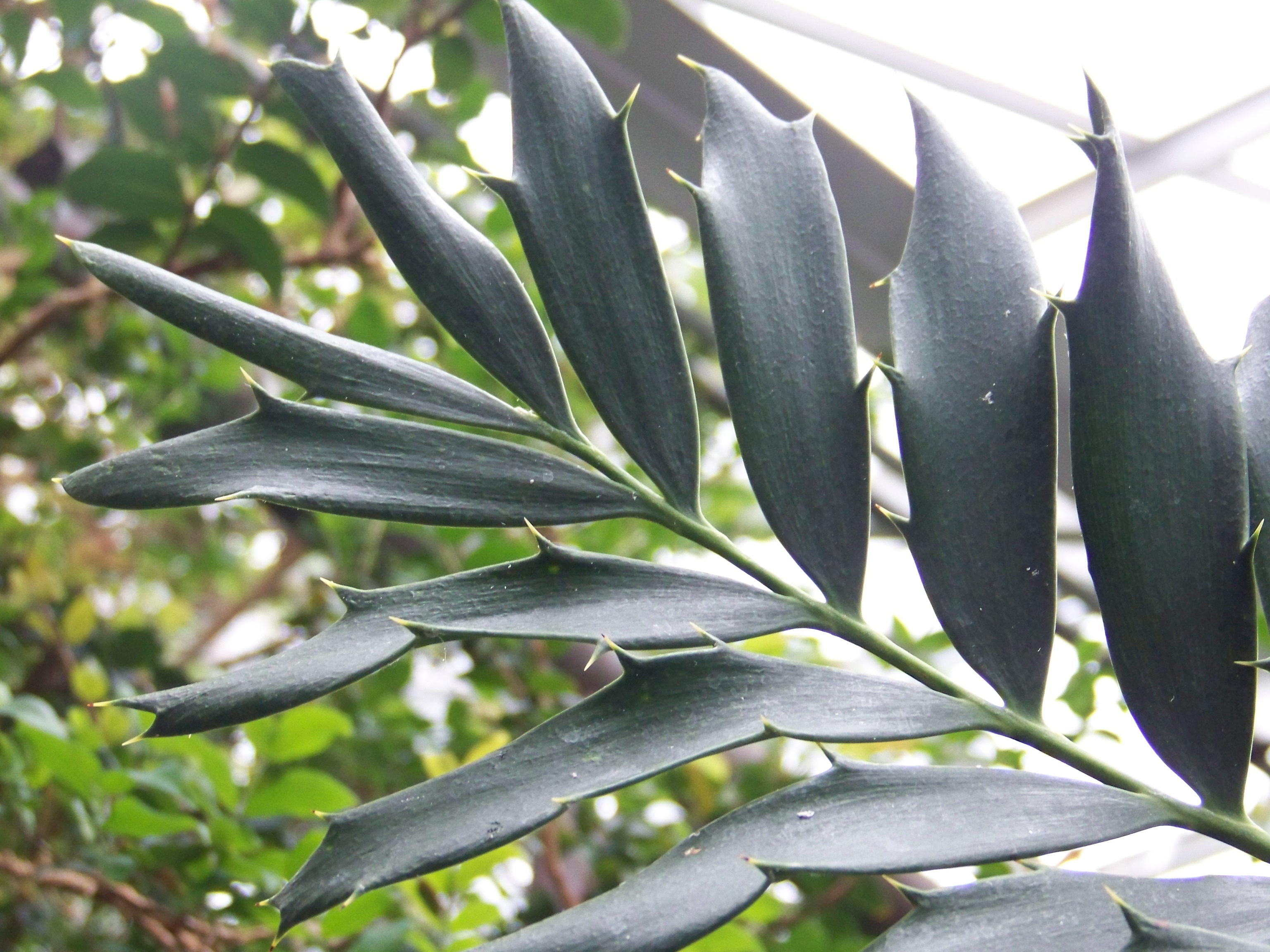 end of a leaf, Binghamton University greenhouse